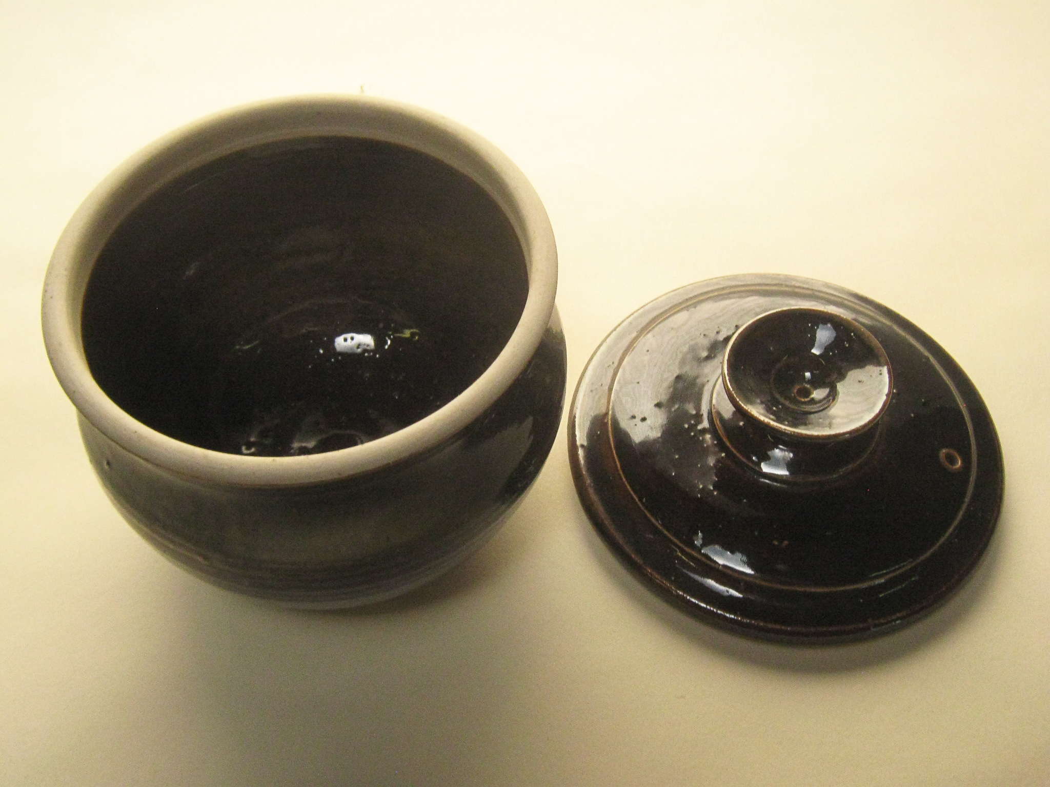 Lidded pottery jar with tenmoku glaze by Ian Sprague; photographed in a private collection at Enfield Victoria